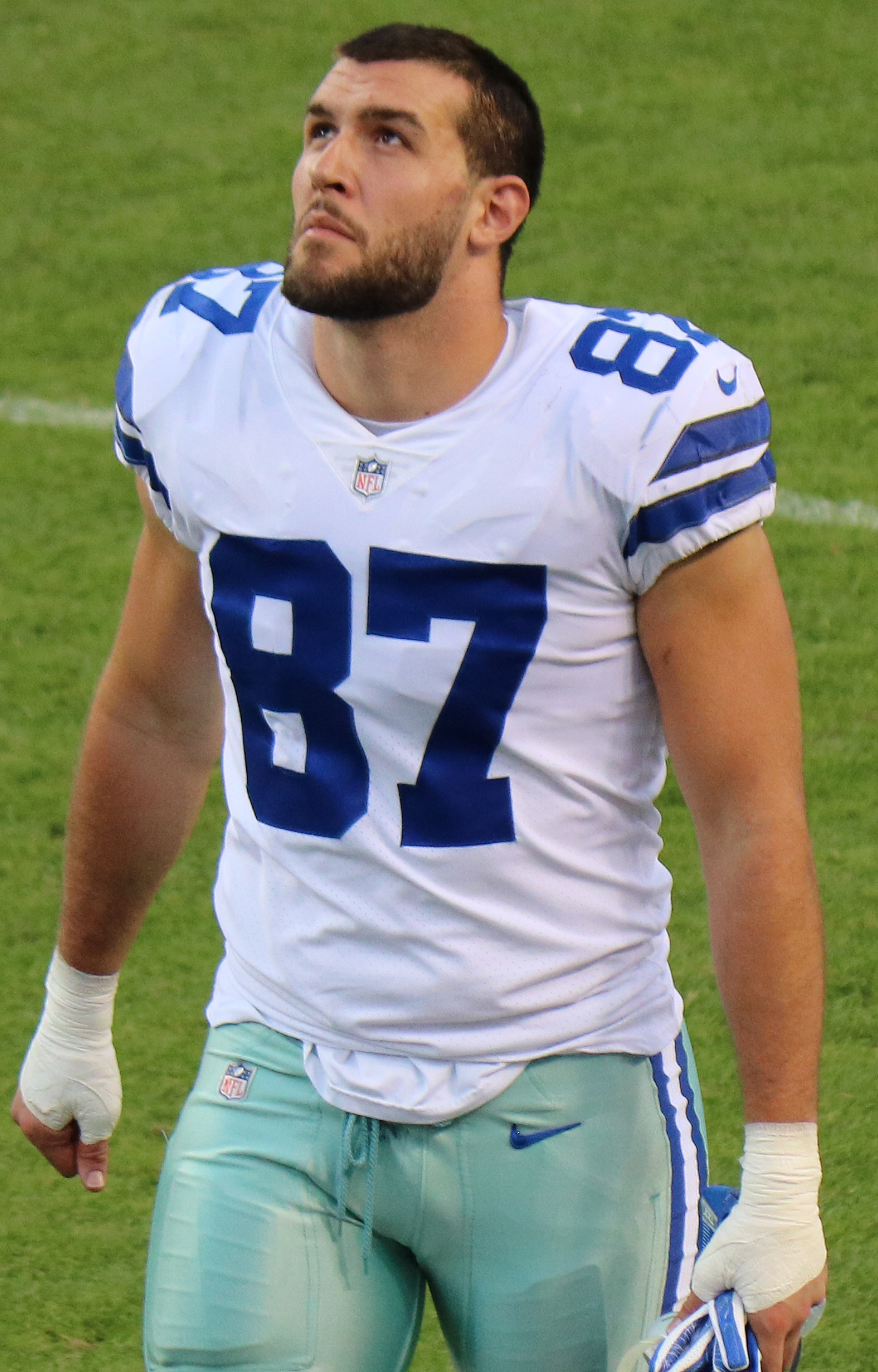 Geoff Swaim, a player on the National Football League.